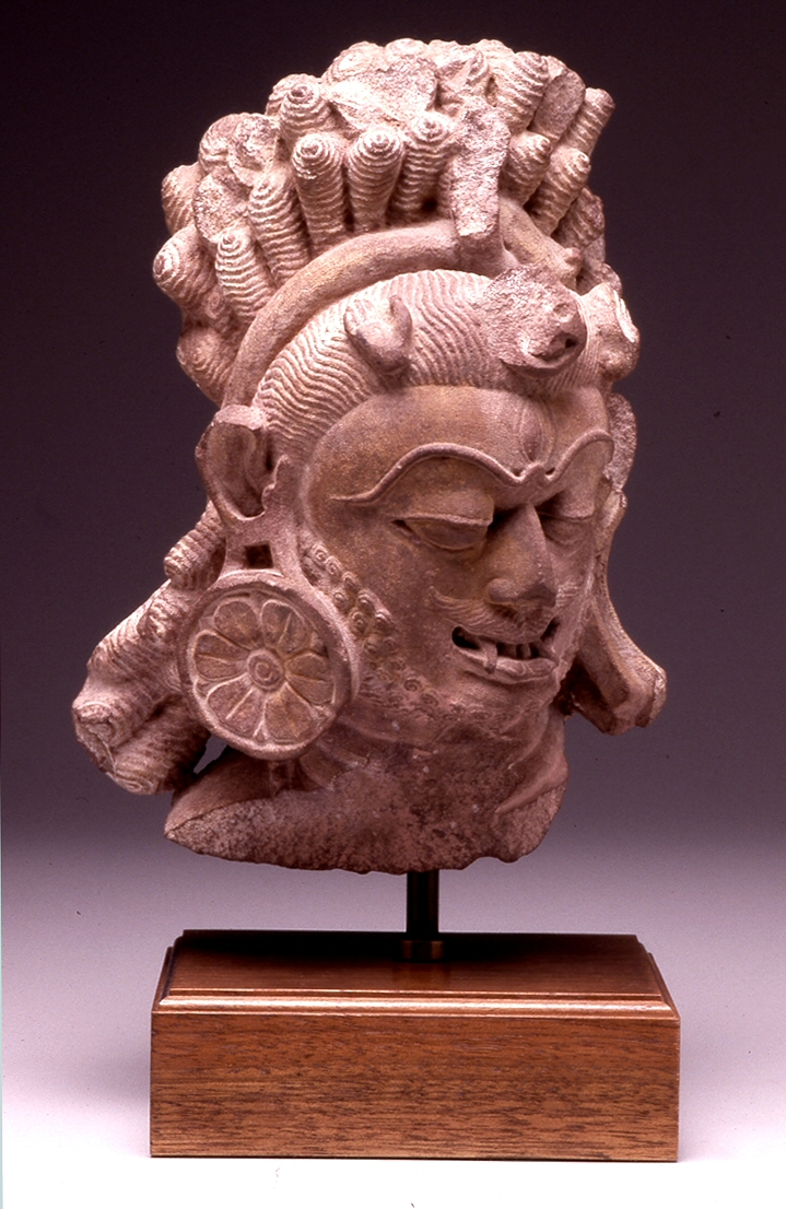 The creator-god Brahma told Shiva that he, Shiva, was the embodiment of the forces of disintegration, that he was naked, and that he was the destroyer of worlds. Although this was all true, Shiva became so angry that he transformed himself into a being of frightful appearance named Bhairava and cut off one of Brahma's heads. After years of wandering, he was finally cleansed of this great sin. "May Bhairava's fearful face . . . graciously destroy your sins," wrote a medieval poet. The entire image, originally placed in a temple niche, showed Bhairava either sitting or standing.